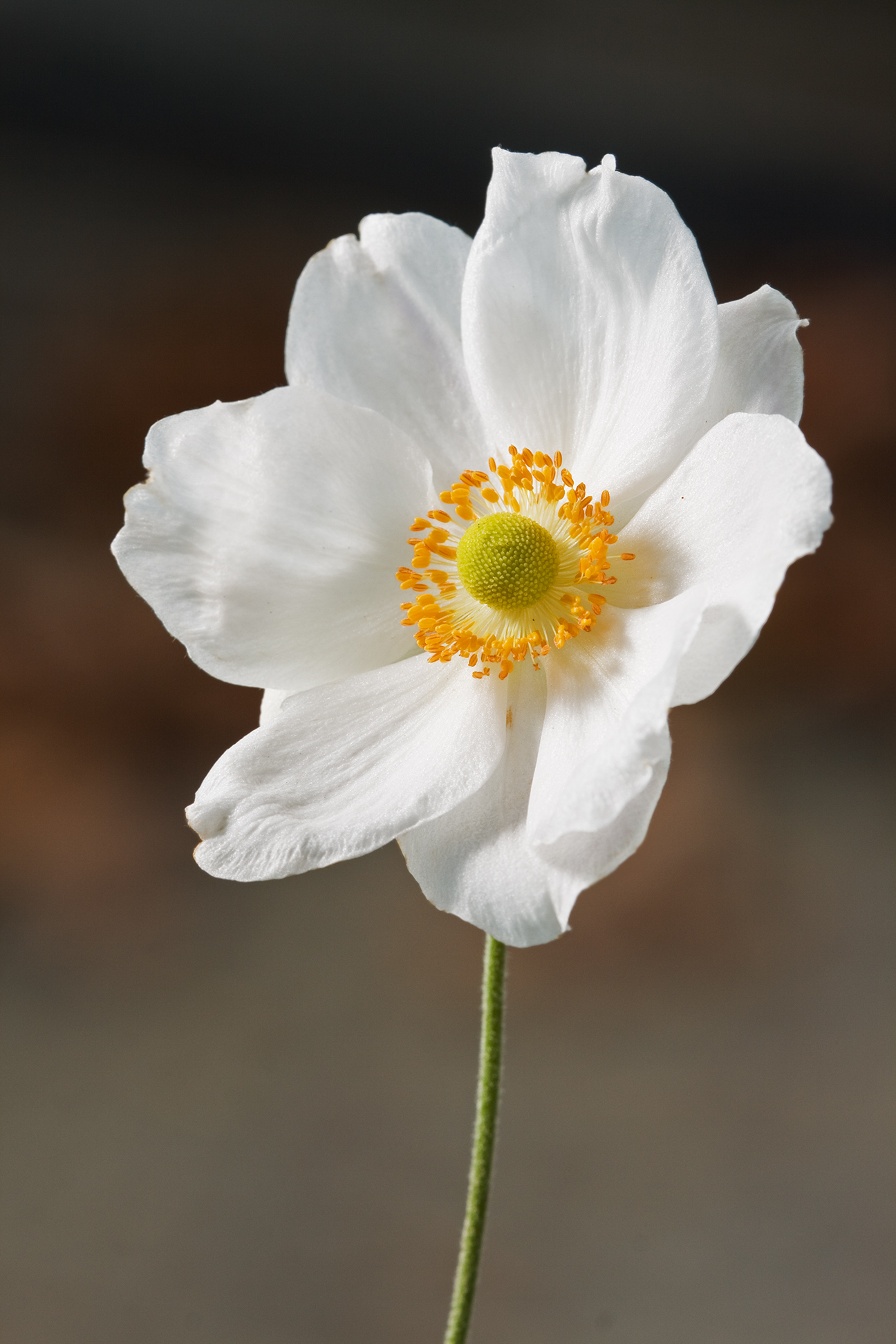 Japanese Anenome flower.